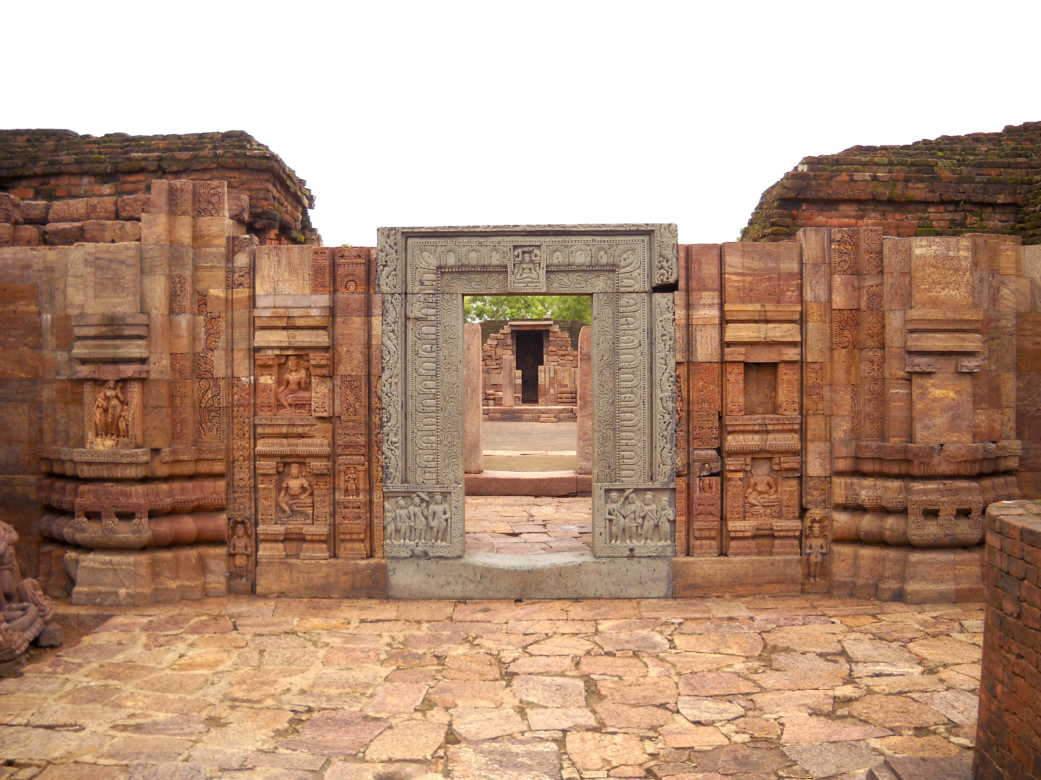 Ruins of Buddhist temples and images